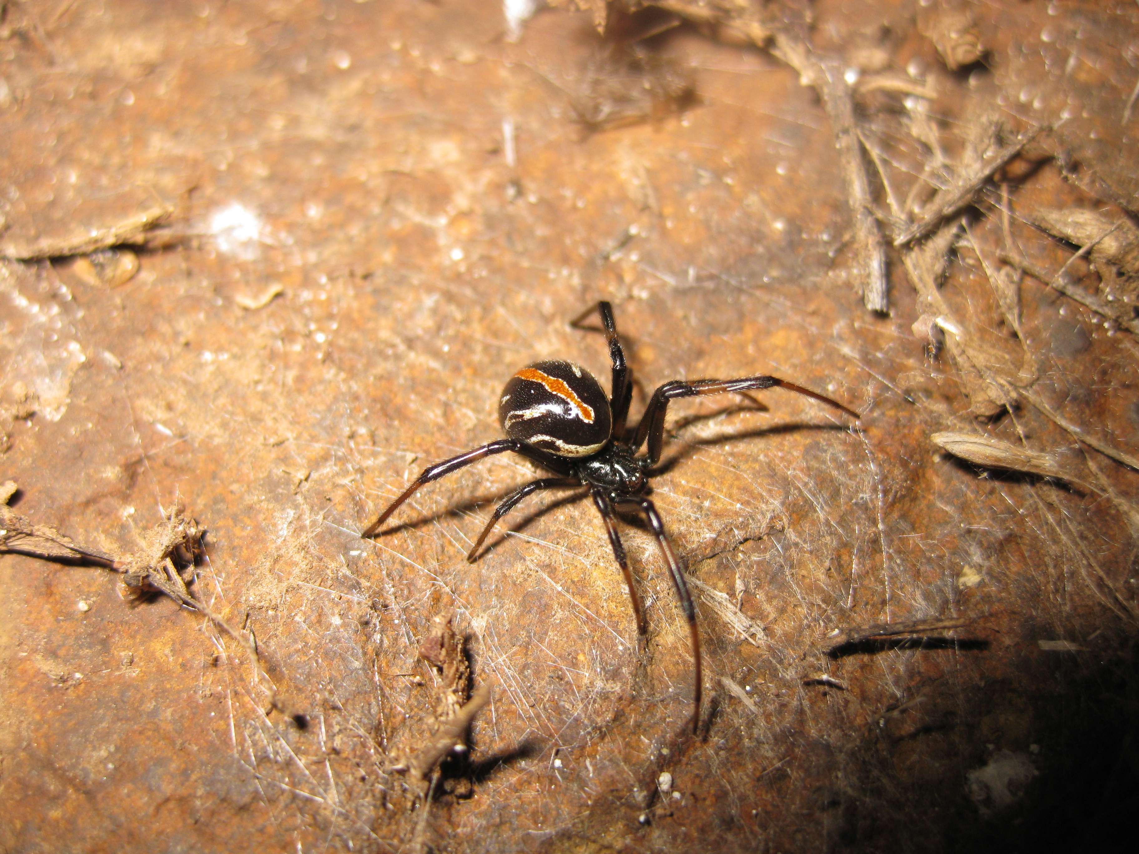 A nighttime photograph of a male black widow (Latrodectus mactans); found under a rock where a female specimen was also found. Photograph taken at Pine Mountain Wilderness, Prescott National Forest, Arizona.